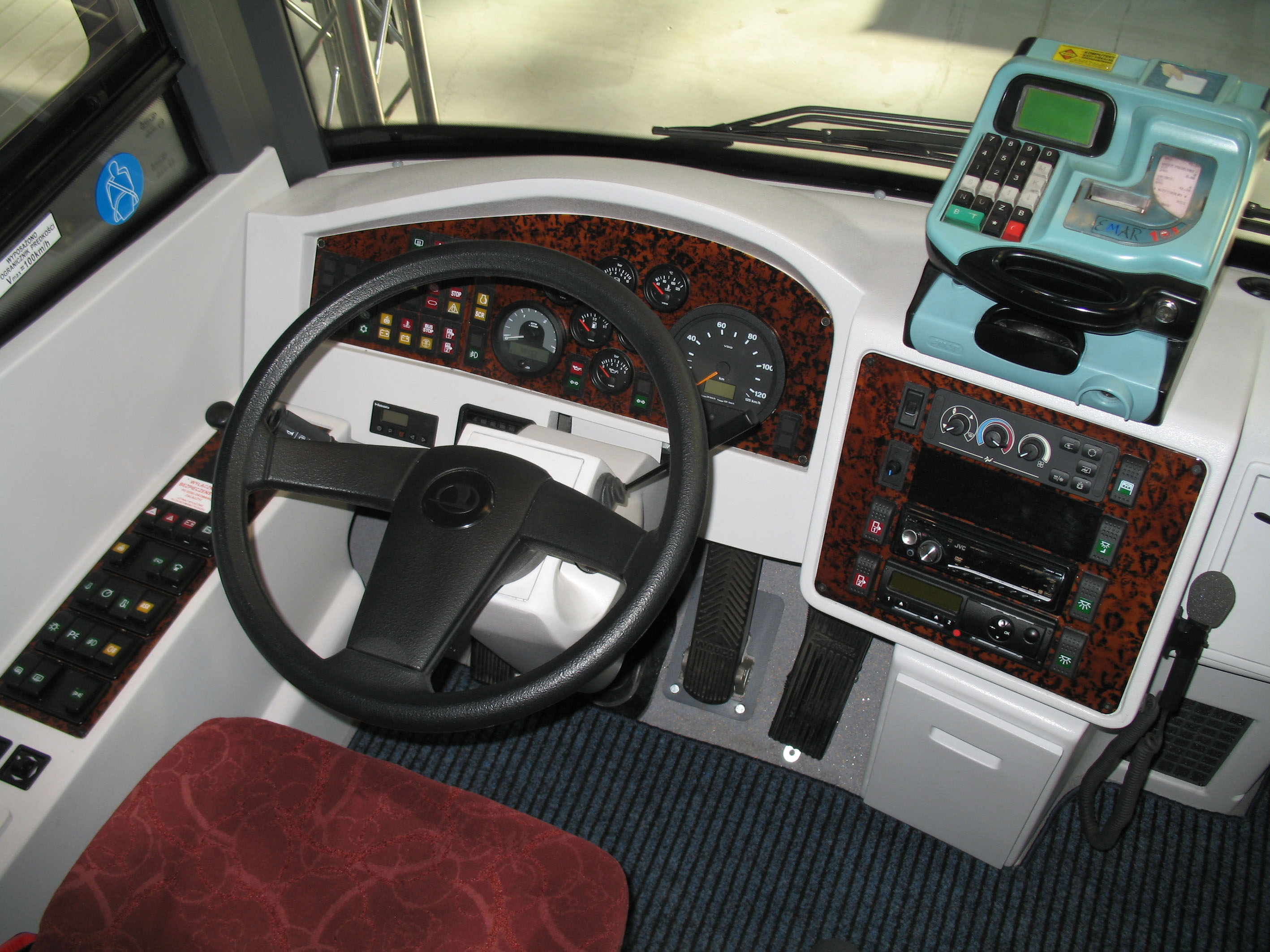 Autosan A0808T Gemini bus cockpit in Kielce, Poland. Built 2010, Veolia Transport Oddział Sanok operator.